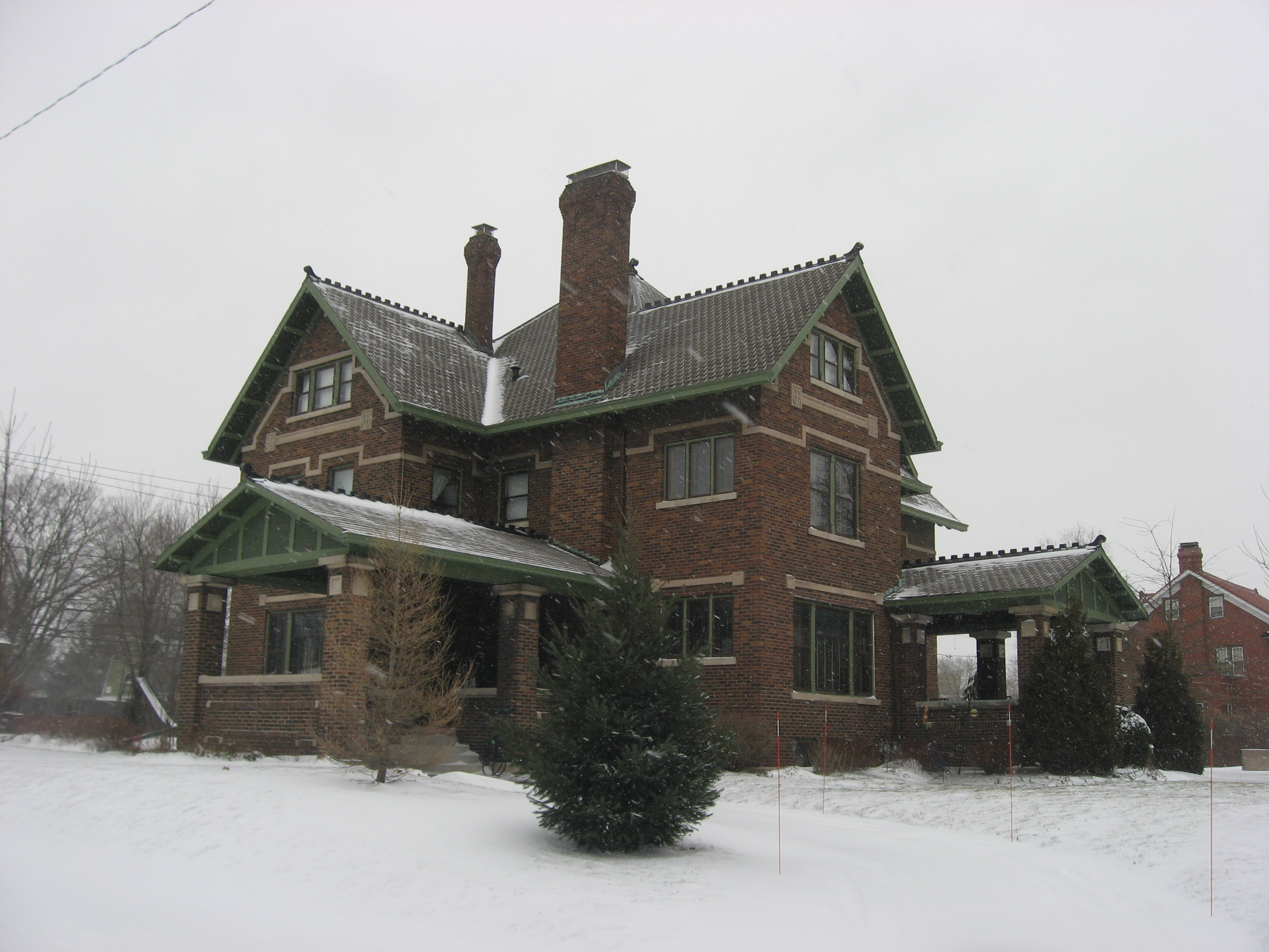 Front and western side of the John Keip House, located at 2500 E. Broadway in Logansport, Indiana, United States. Built in 1915, it is listed on the National Register of Historic Places.